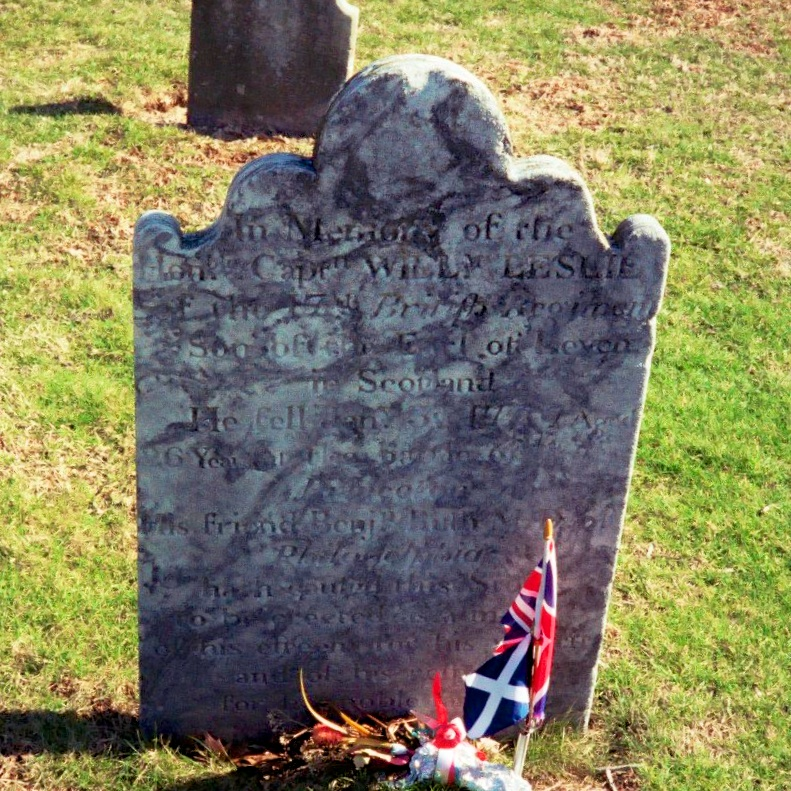 Gravestone of British Captain William Leslie, who died after the Battle of Princeton and was buried with military honors by George Washington on January 5, 1777 in the graveyard of St. Paul's Lutheran Church (now the Presbyterian Church) at Pluckemin, New Jersey. He was a friend of the American Dr. Benjamin Rush.